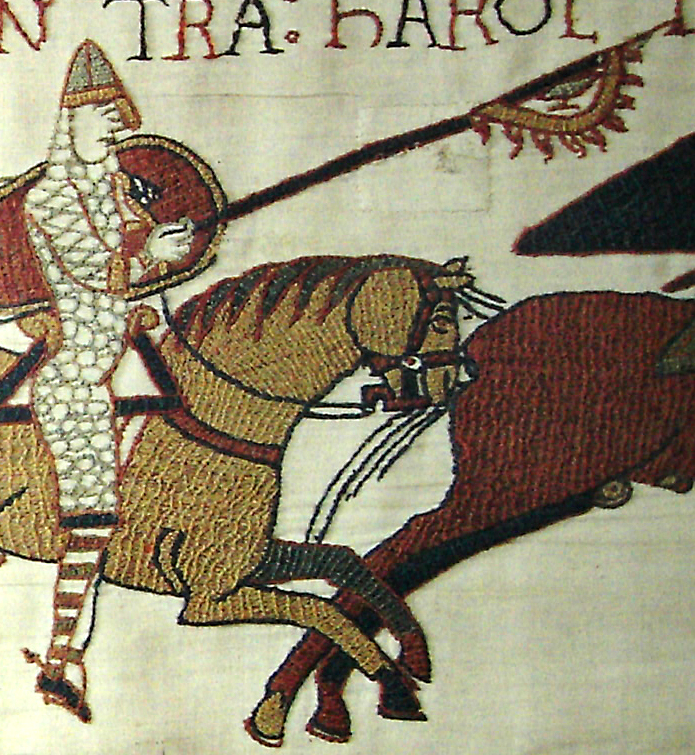 Cropped image of the raven banner which appears on the Bayeux Tapestry.